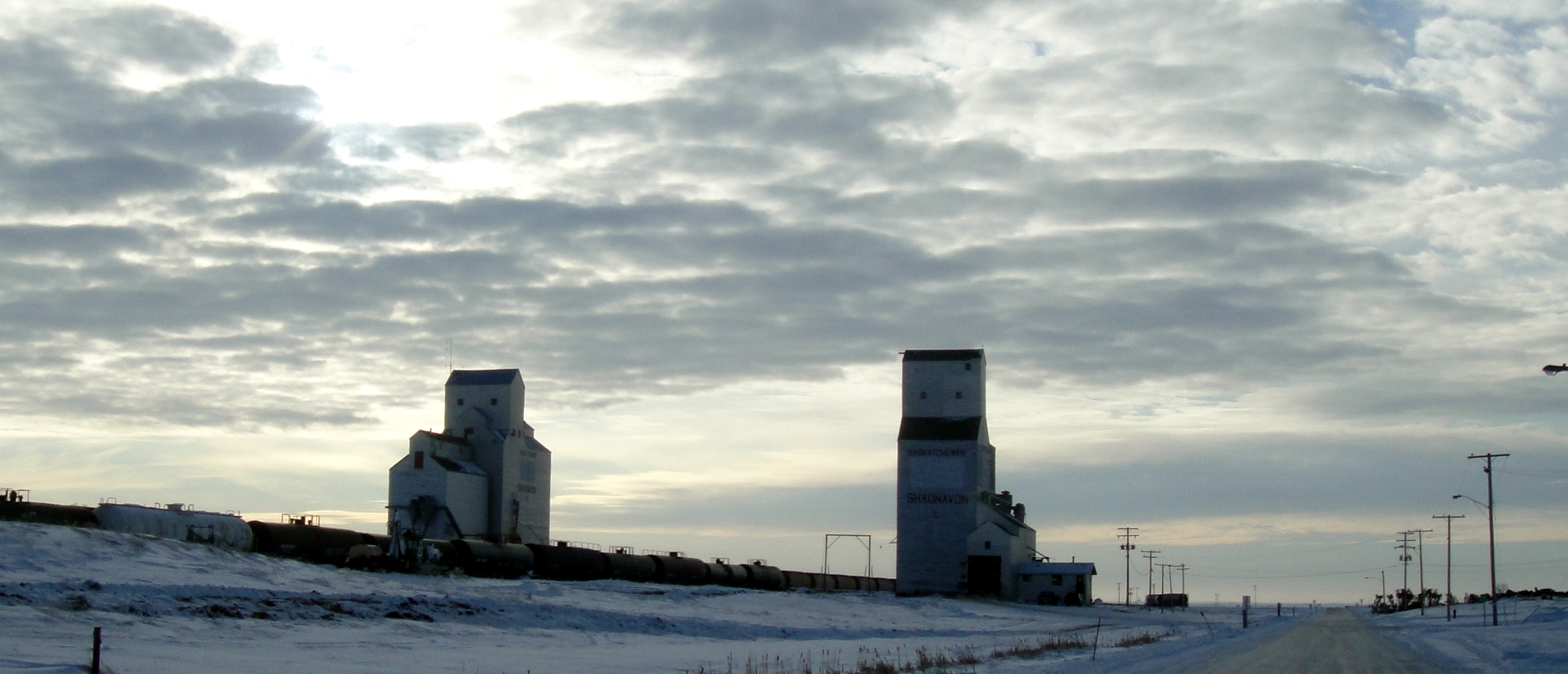 Grain elevators in Shaunavon, Saskatchewan, Canada